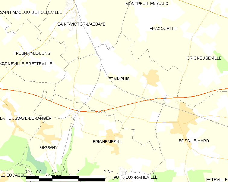 Map of French municipality Étaimpuis